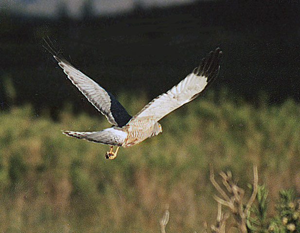 A Vari in flight Chubut. In context at